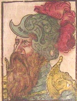 This woodcut, cutted by Heinrich Vogtherr the Elder, was published in „Chronik der Schweizer Eidgenossenschaft“ by Johannes Stumpf, Zürich 1548, and is privately owned